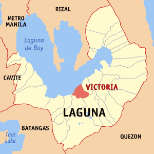 Locator map of Victoria in Laguna, Philippines.